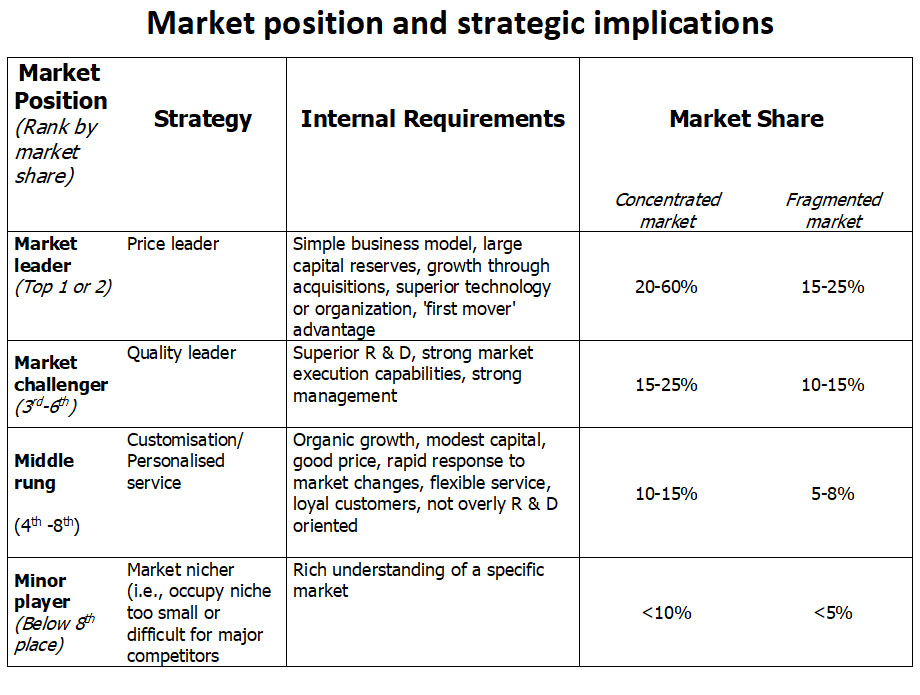 the image is an original idea, based on collection of insights taken from multiple sources, organised in a unique manner